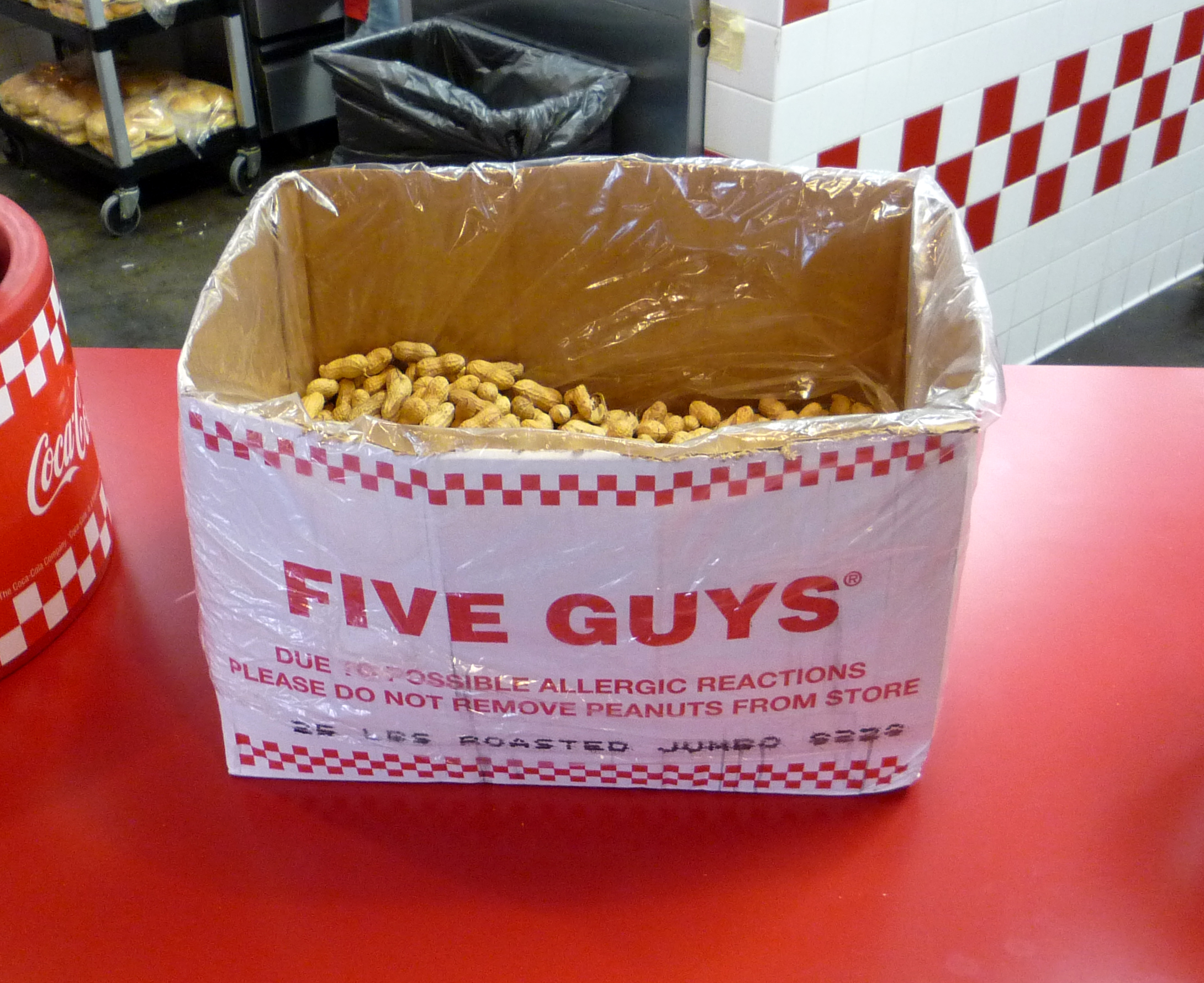 Complimentary peanuts at a Five Guys restaurant in Charlottesville, Virginia.